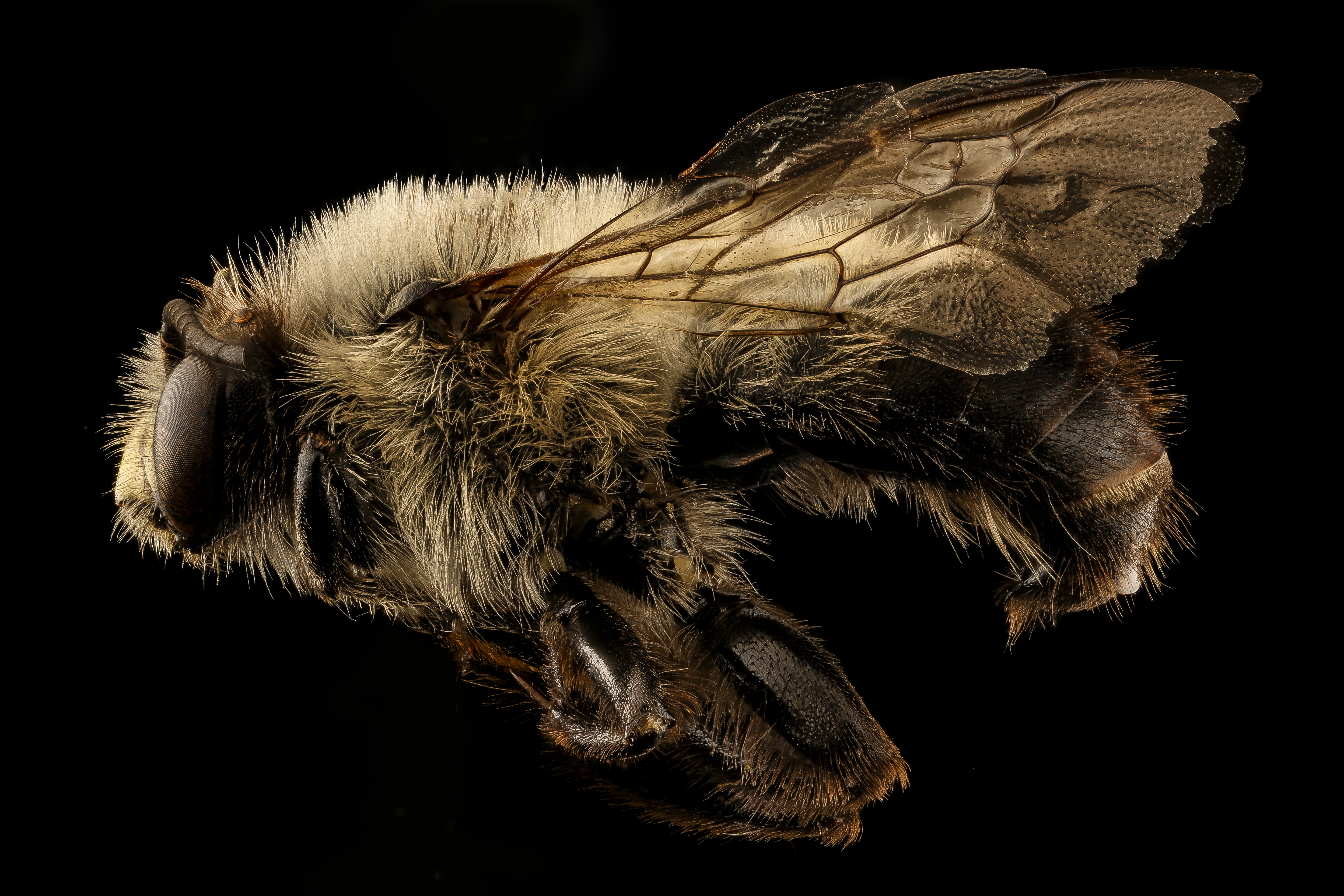 Anthophora bomboides, m, left side, Centre Co., PA 2017-06-08-16.27